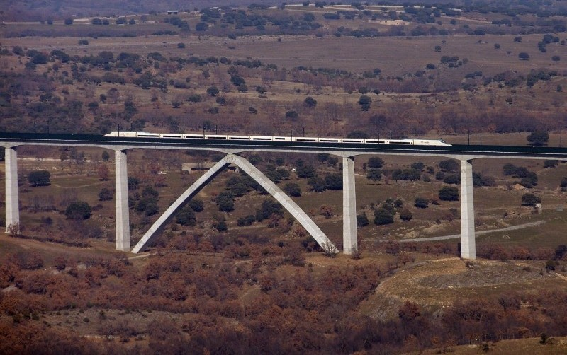 Arroyo del Valle Viaduct on the Madrid-Segovia-Valladolid high-speed railway line. An AVE-S 102 is on its way from Madrid to Valladolid.